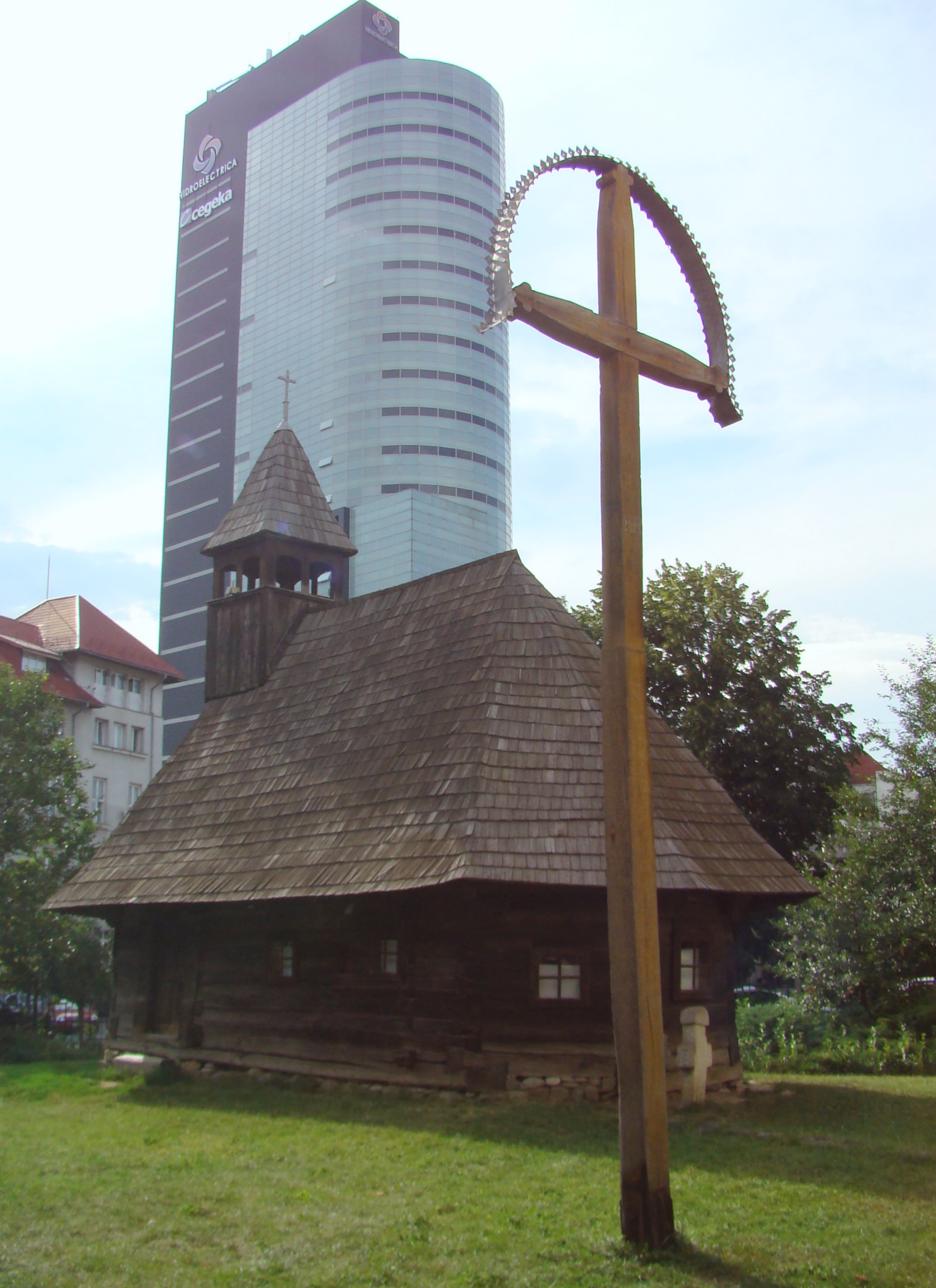 Wooden church in Bejan, Hunedoara county, transfered in Bucharest in 1992